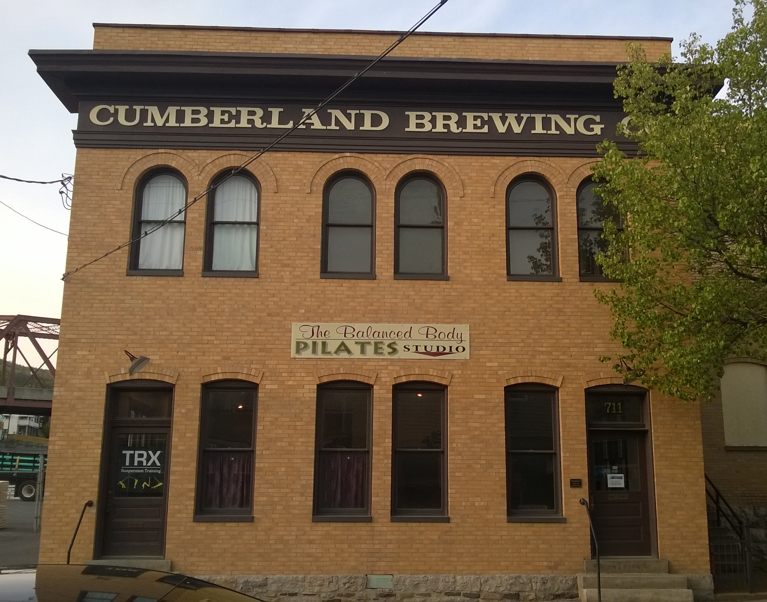 The Cumberland Brewing Company in Cumberland Maryland: 2014